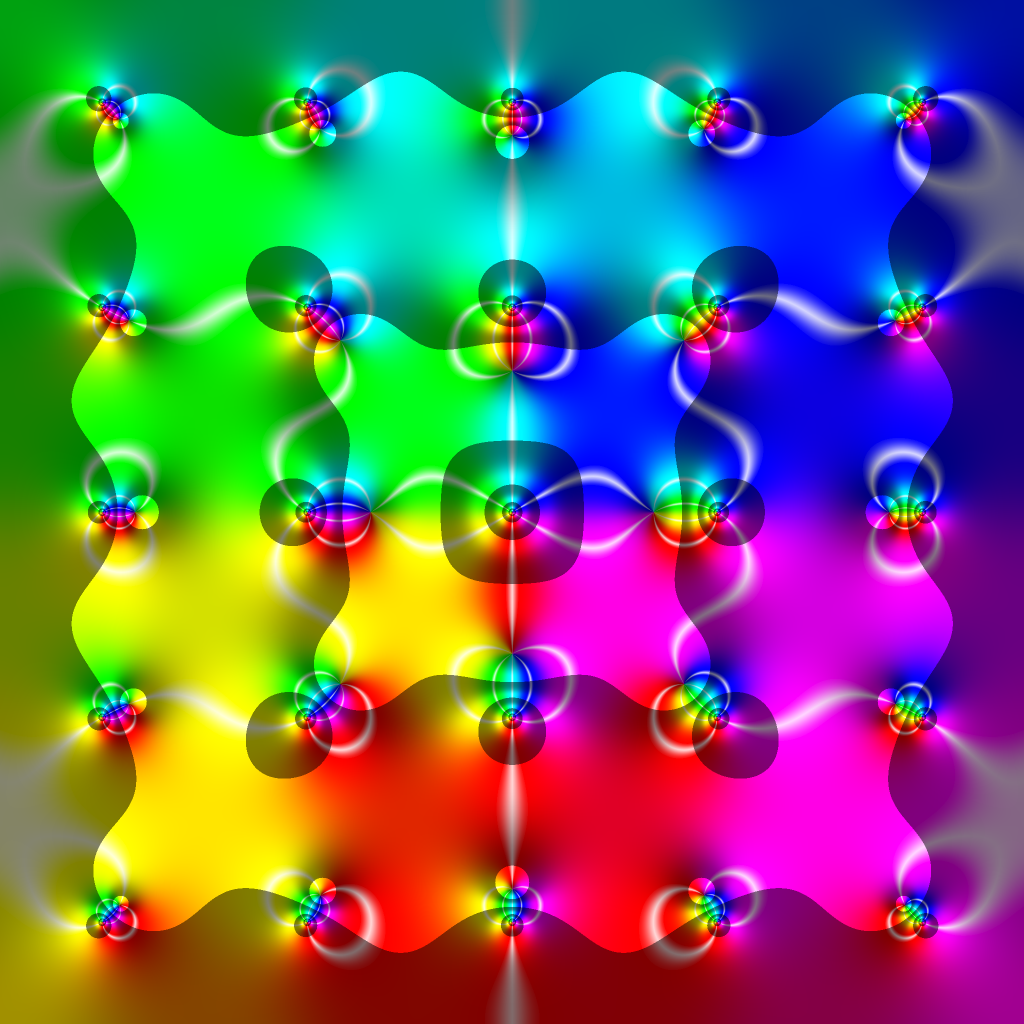 Plot of Weierstrass zeta function using Domain Colorig